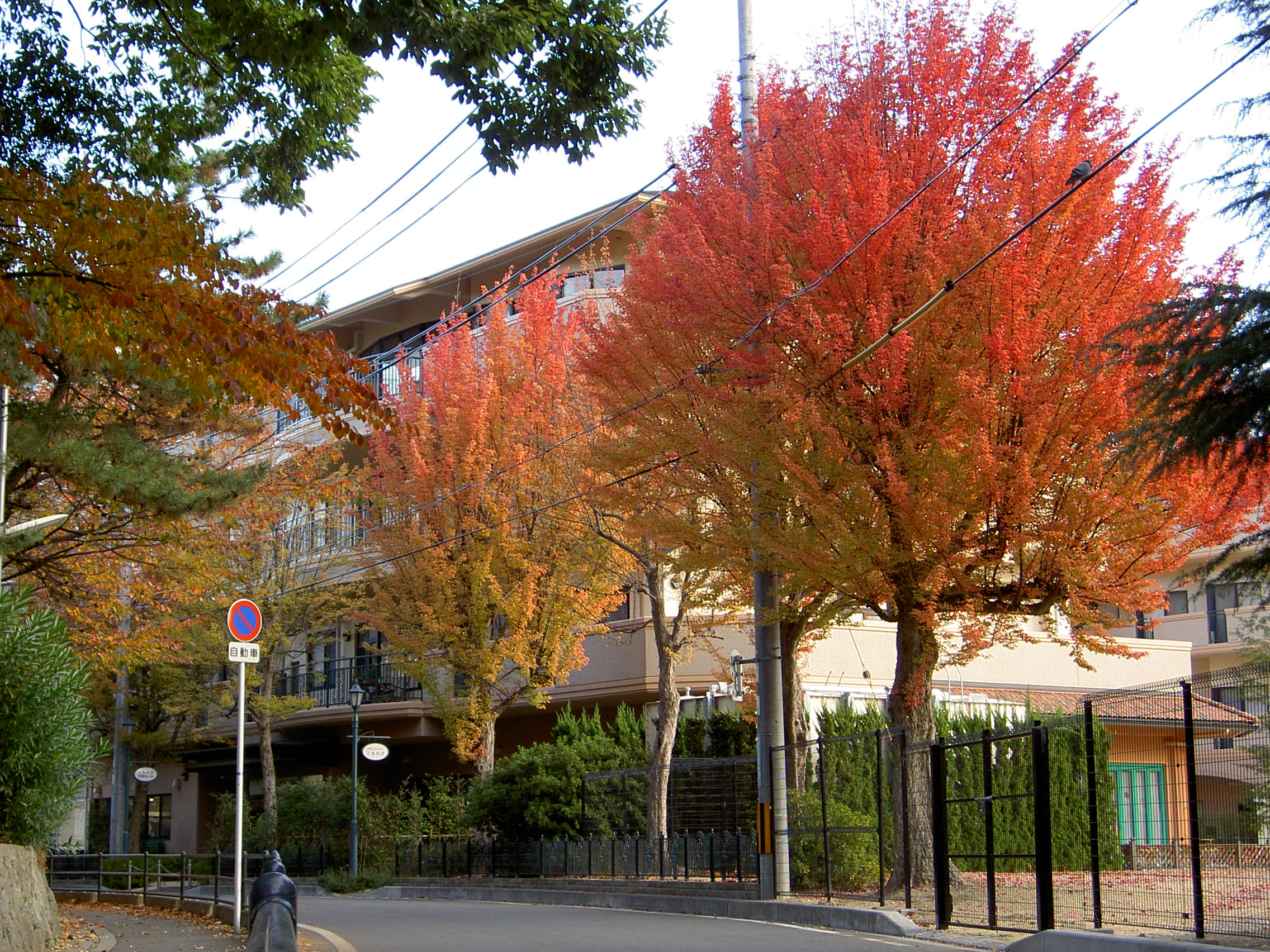 Row of trident maple trees in Kori housing complex. Hirakata-shi, Osaka Japan.